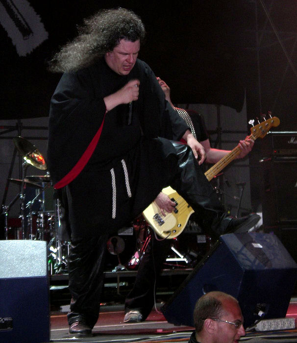 Messiah Marcolin, vocalist of Swedish Heavy metal band Candlemass